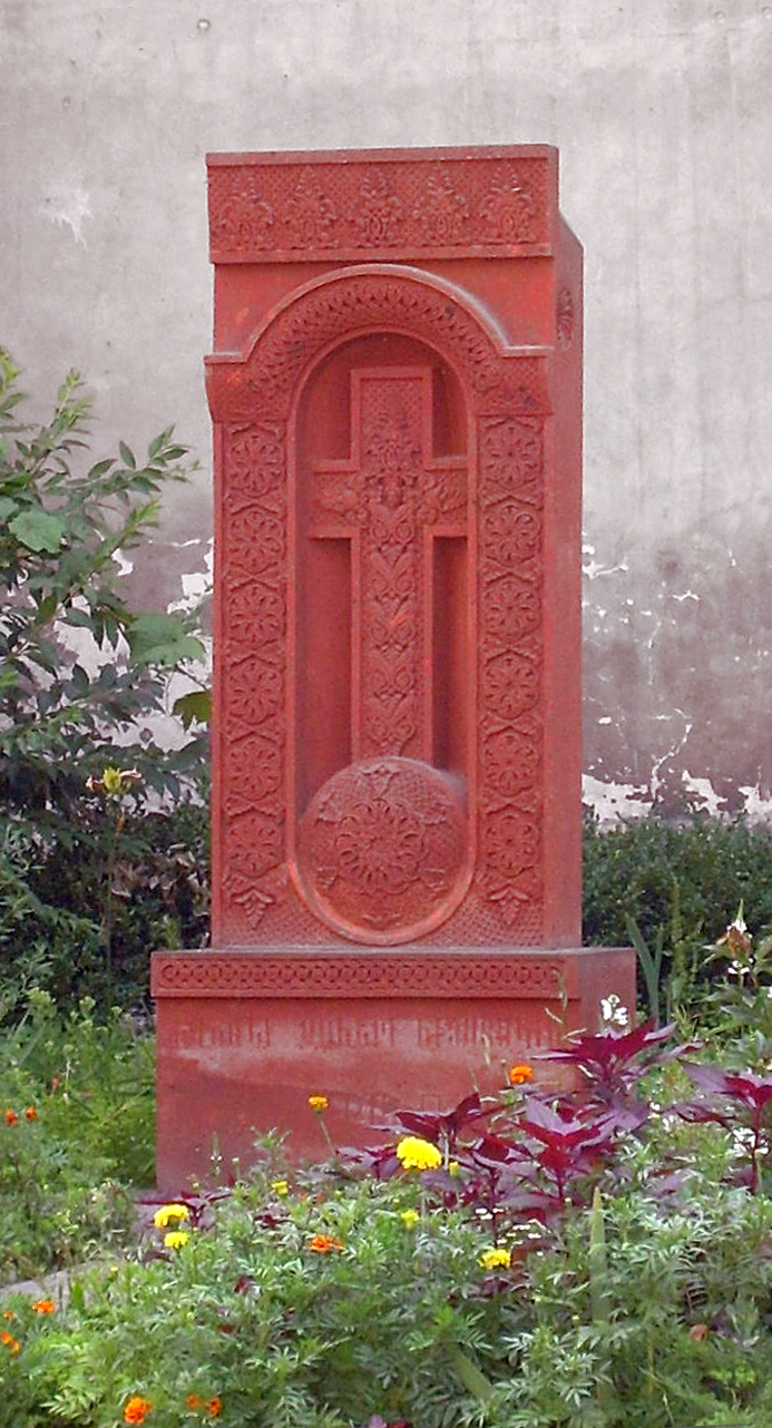 Khachkar standing by Armenian Catedral in Lviv